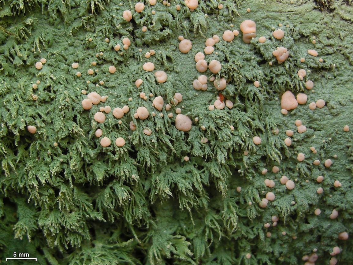 Icmadophila ericetorum 20101029.19 Canada, BC, Wells Gray Provincial Park (damp)